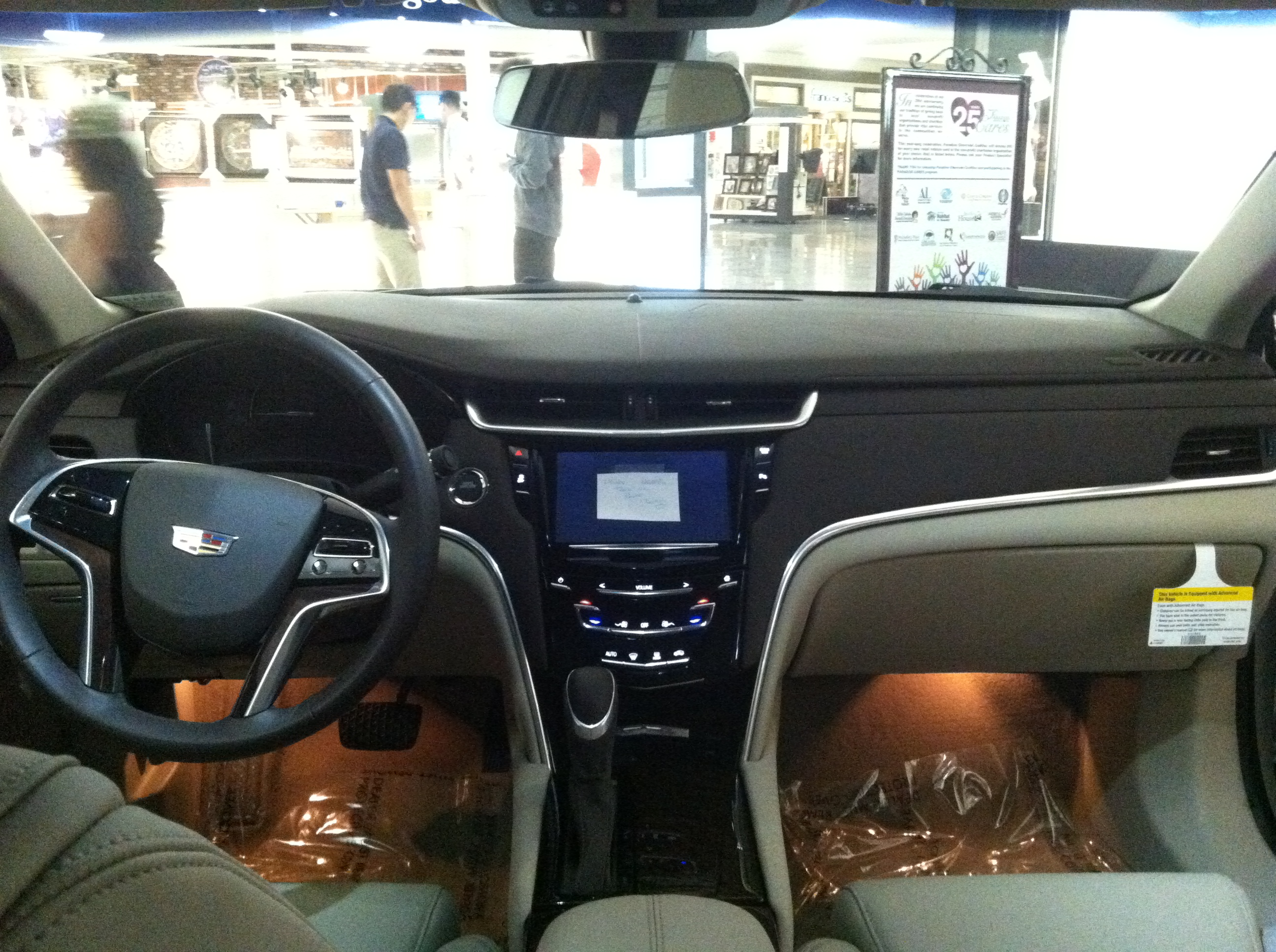 Cadillac XTS 2017 Interiors.